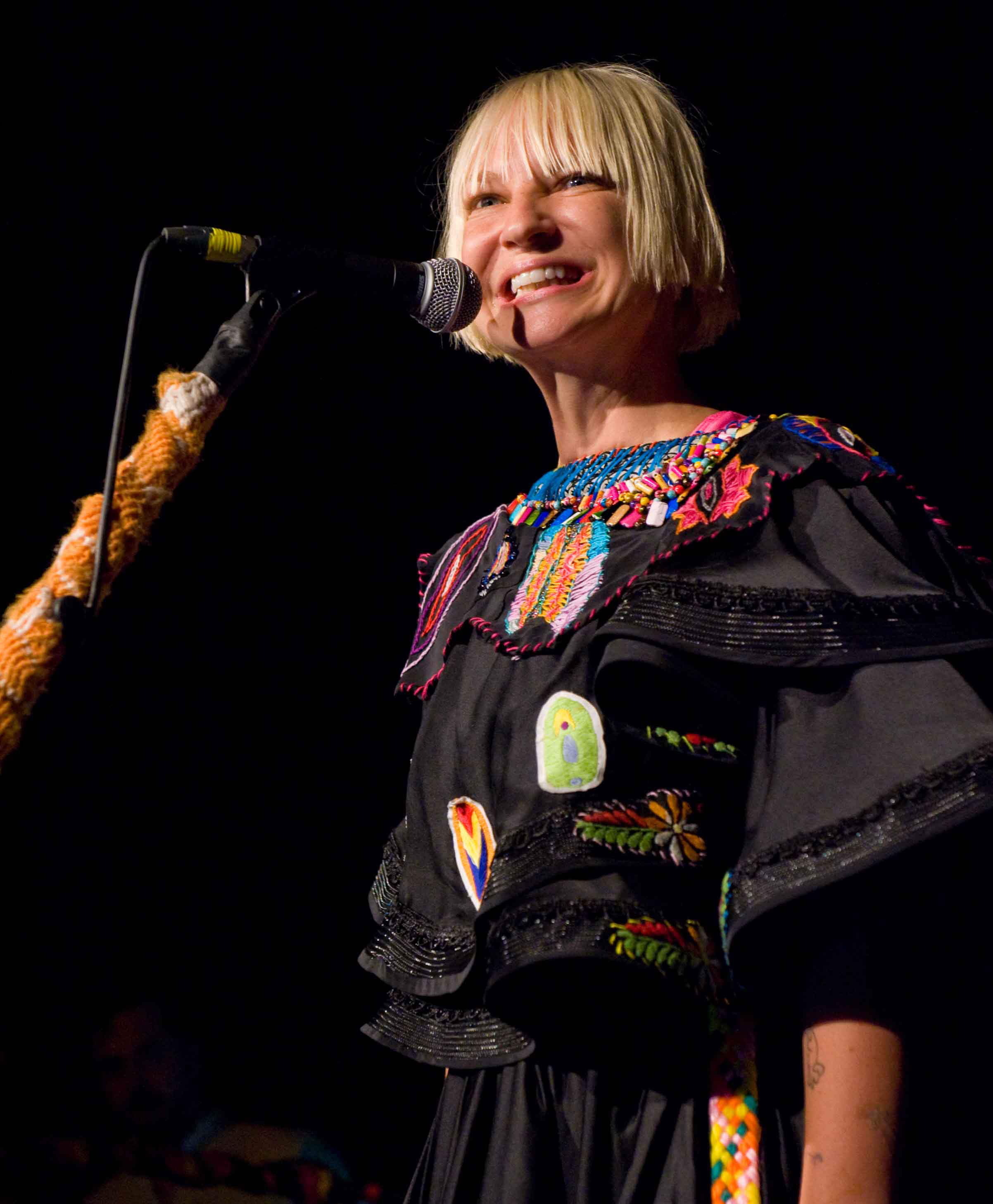 Sia performs on August 17, 2011 at the Showbox at the Market in Seattle, Washington